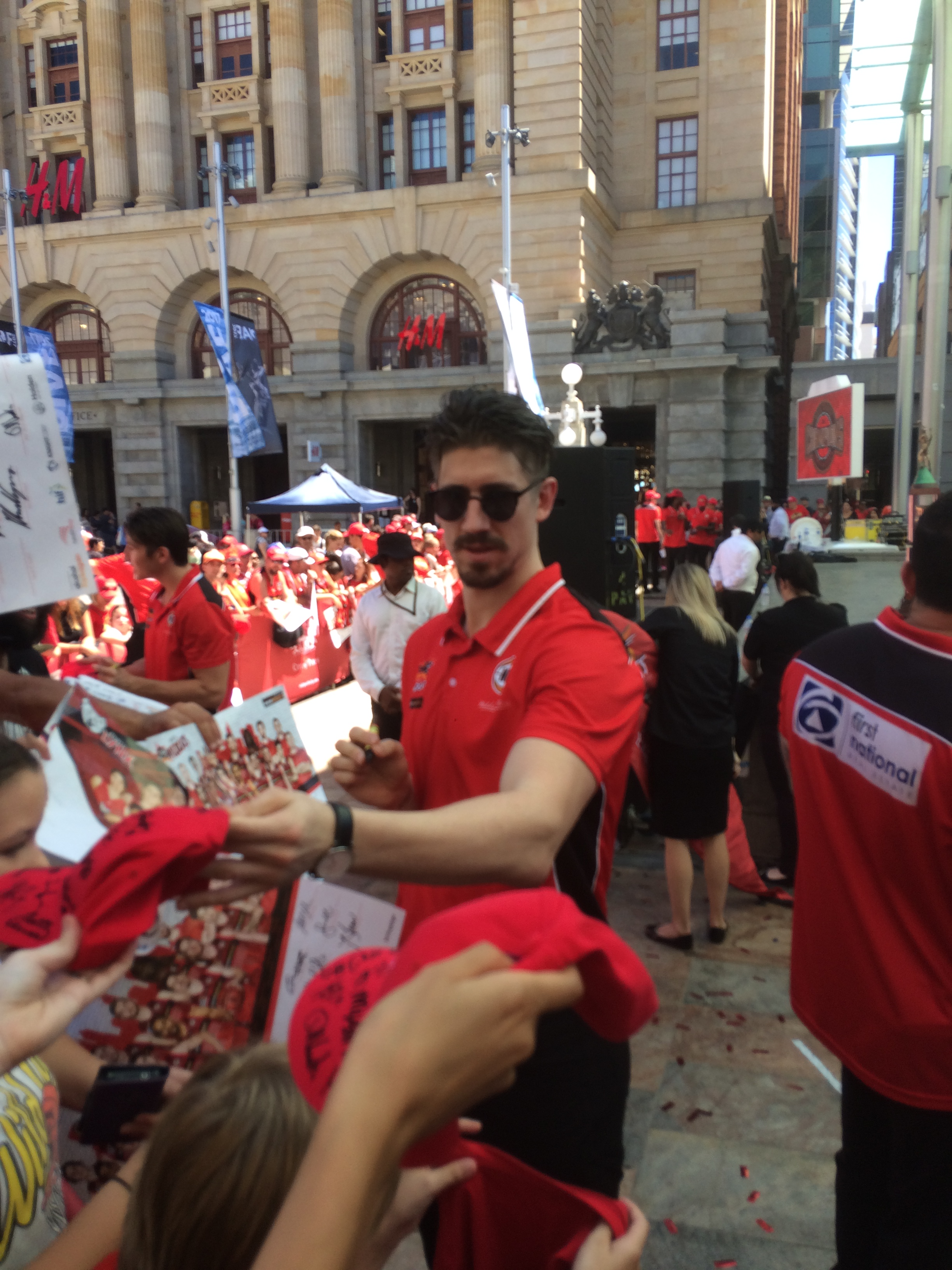 Greg Hire at the Perth Wildcats' 2017 championship celebration